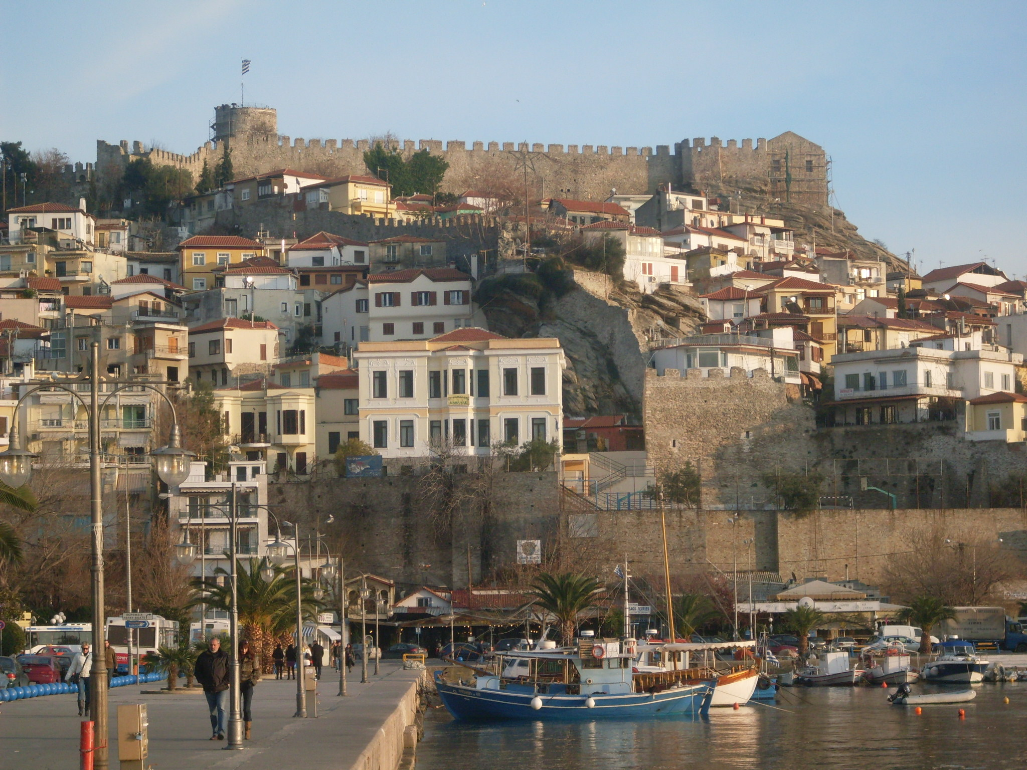 Kavala port